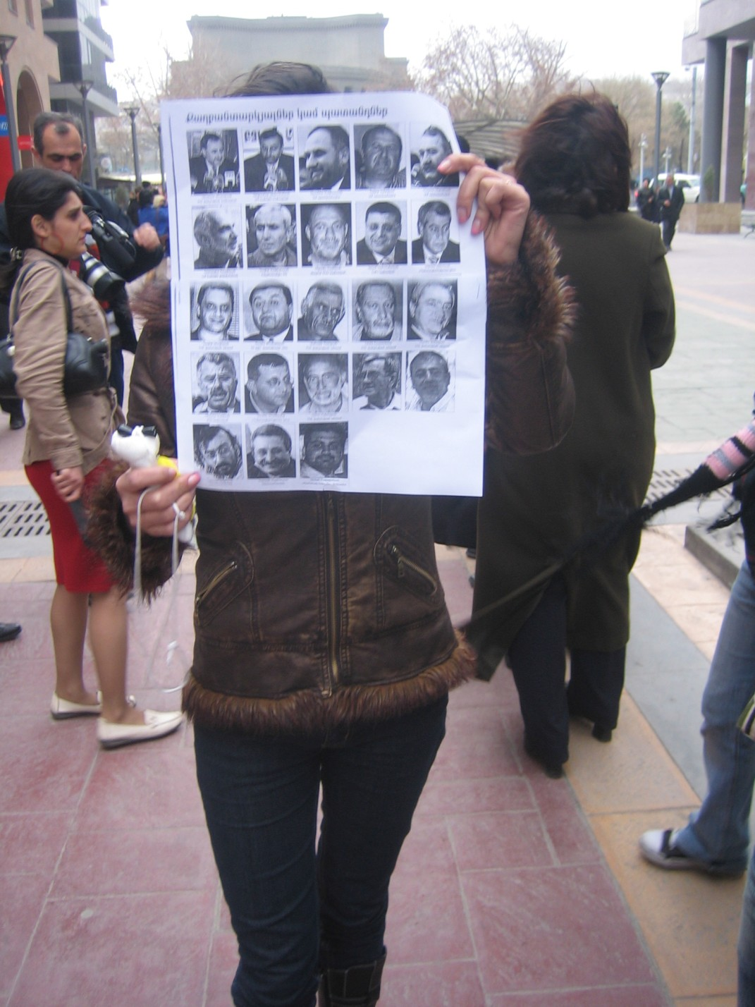 The first day after the 20-day state of emergency had been lifted after the Armenian presidential election protests. Between 5pm and 7pm, about 1,000 citizens -- mostly women -- participated in a peaceful and silent protest and vigil to remember those who died on March 1, condemn the government's actions, and to recognize the more than 100 political prisoners. In this picture (5:25 pm) on Northern Avenue, a young woman holds a picture of some of the 100+ political prisoners (members of the opposition) who are being held on counts of allegedly conspiring to violently overthrow the government.